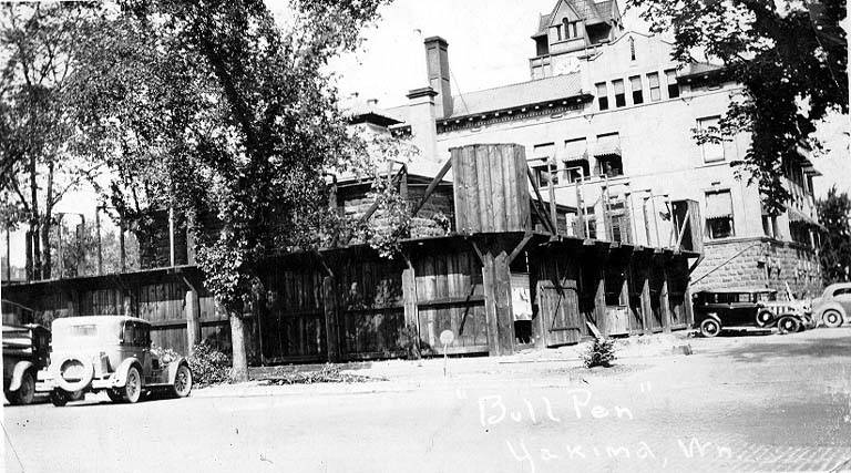 General Notes: Written in verso: "For IWW strikers" Photographer: Unknown Subjects (LCSH): Industrial Workers of the World -- History. Industrial Workers of the World. Digital Collection: Industrial Workers of the World Photograph Collection Item Number: Persistent URL: Visit the Labor Archives of Washington State, UW Special Collections reproductions and rights page for information on ordering a copy. University of Washington Libraries. Labor Archives Digital Collections. Related Resources: Labor Archives of Washington State Website Labor Archives of Washington State Collection Guide Finding aid to the Industrial Workers of the World Photograph Collection, Labor Archives of Washington State, University of Washington Libraries Special Collections Finding aid to the Industrial Workers of the World Seattle Joint Branches Records, Labor Archives of Washington State,University of Washington Libraries Special Collections Finding aid to the Industrial Workers of the World Seattle Joint Branches Records, Labor Archives of Washington State, University of Washington Libraries Special Collections Finding aid to the Everett Prisoners' Defense Committee Records, Labor Archives of Washington State, University of Washington Libraries Special Collections